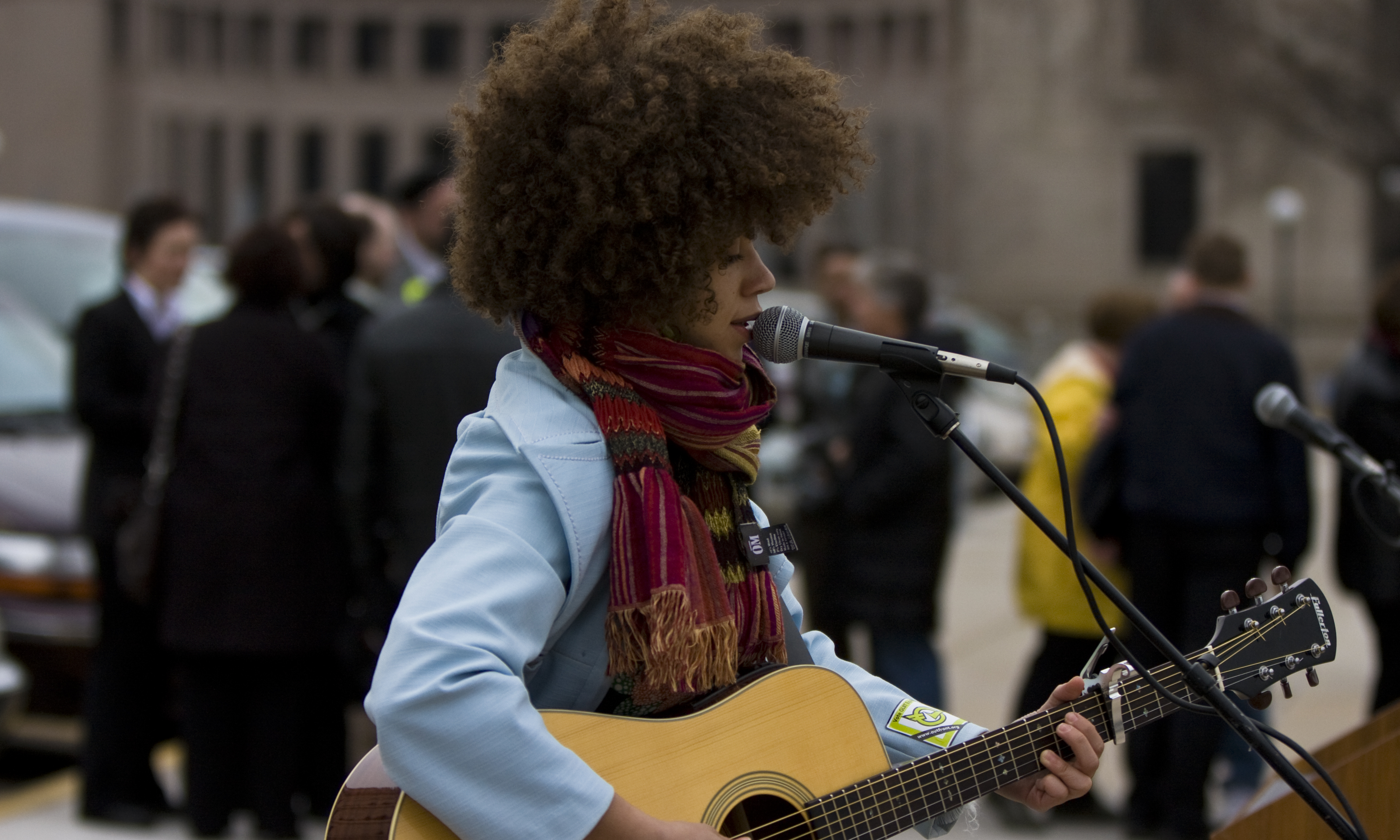 Musician Chastity Brown singing at the OutFront JustFair GLBT Lobby Day at the Minnesota State Capitol, April 17, 2008.